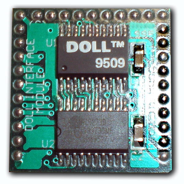 DOLL interface from 1995